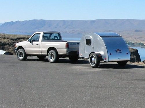 Teardrop trailer (Columbia River, Washington State)